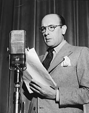 Cedric Hardwicke, English actor. Original caption: Sir Cedric Hardwicke, reading his lines for the War Production Board (WPB) Blue Network radio show, Three Thirds of the Nation, presented June 3, 1942.